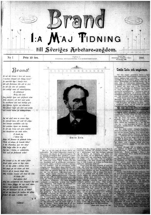 The very first issue of Brand (from 1898), the oldest running anarchist paper/magazine in the world